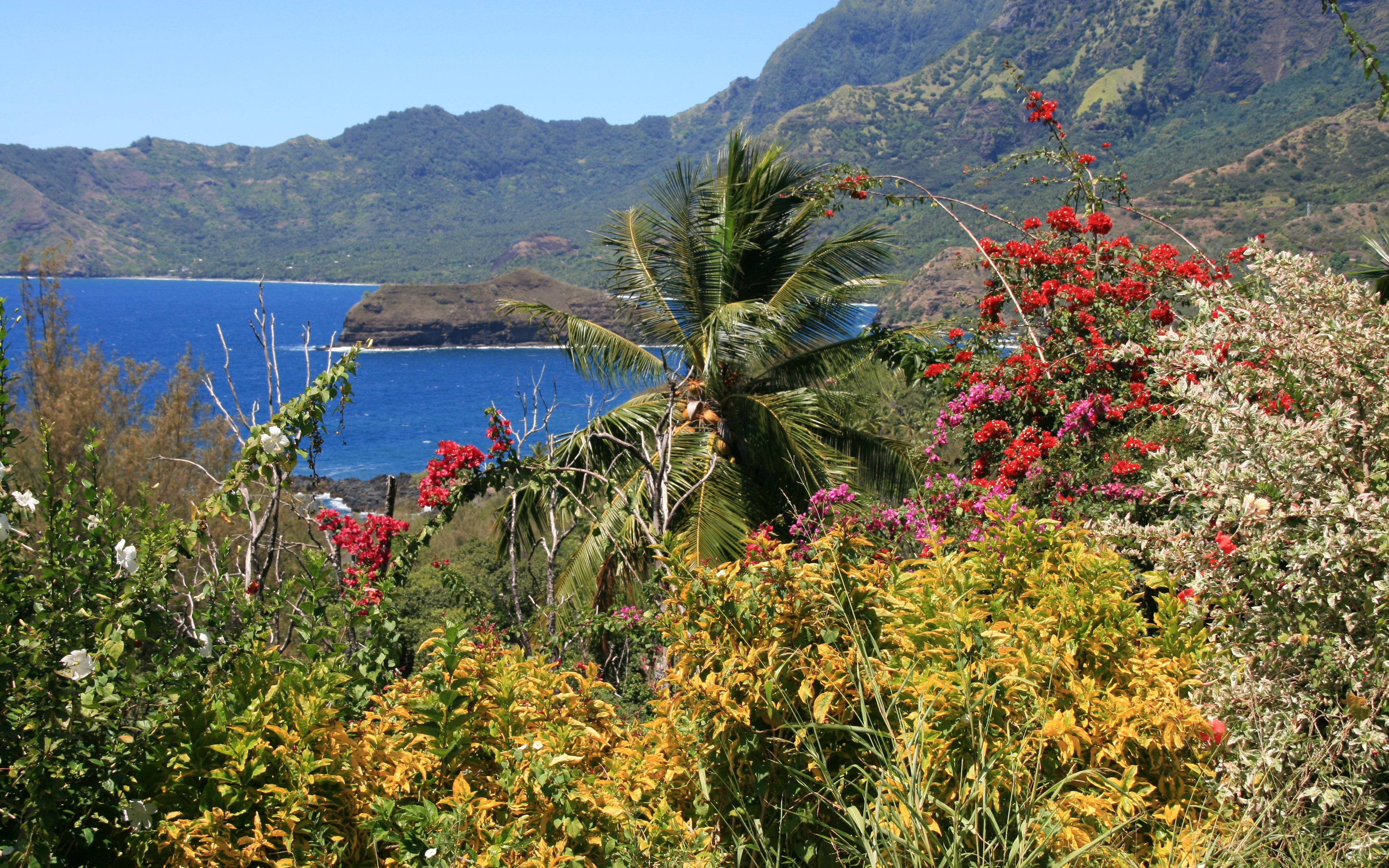 Vegetation at the edge of the road from Atuona to Puamau, Hiva Oa, Marquesas Islands, French Polynesia. Sight on the "Baie des Traitres" (Traitors Bay) and the Hanakee rock.